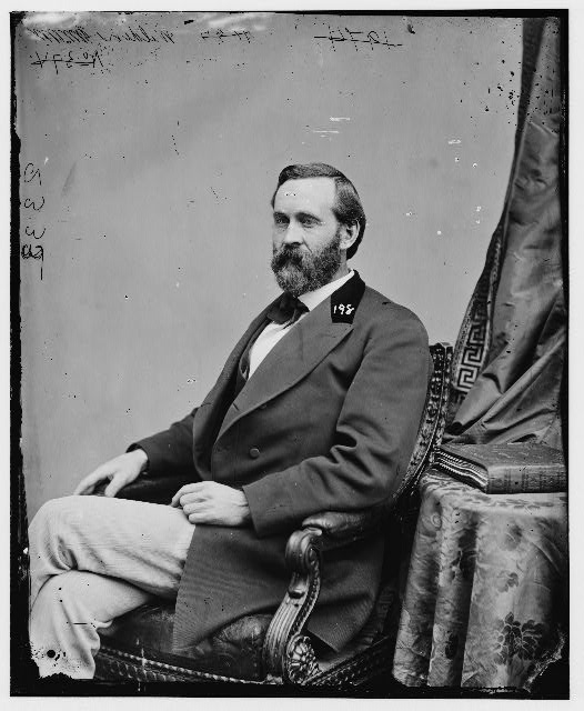 The Hon. Madison Miner Walden, a Civil War officer, teacher, publisher, farmer, Lieutenant Governor of Iowa, and a one-term Republican U.S. Representative from Iowa's 4th congressional district, then located in southeastern Iowa.